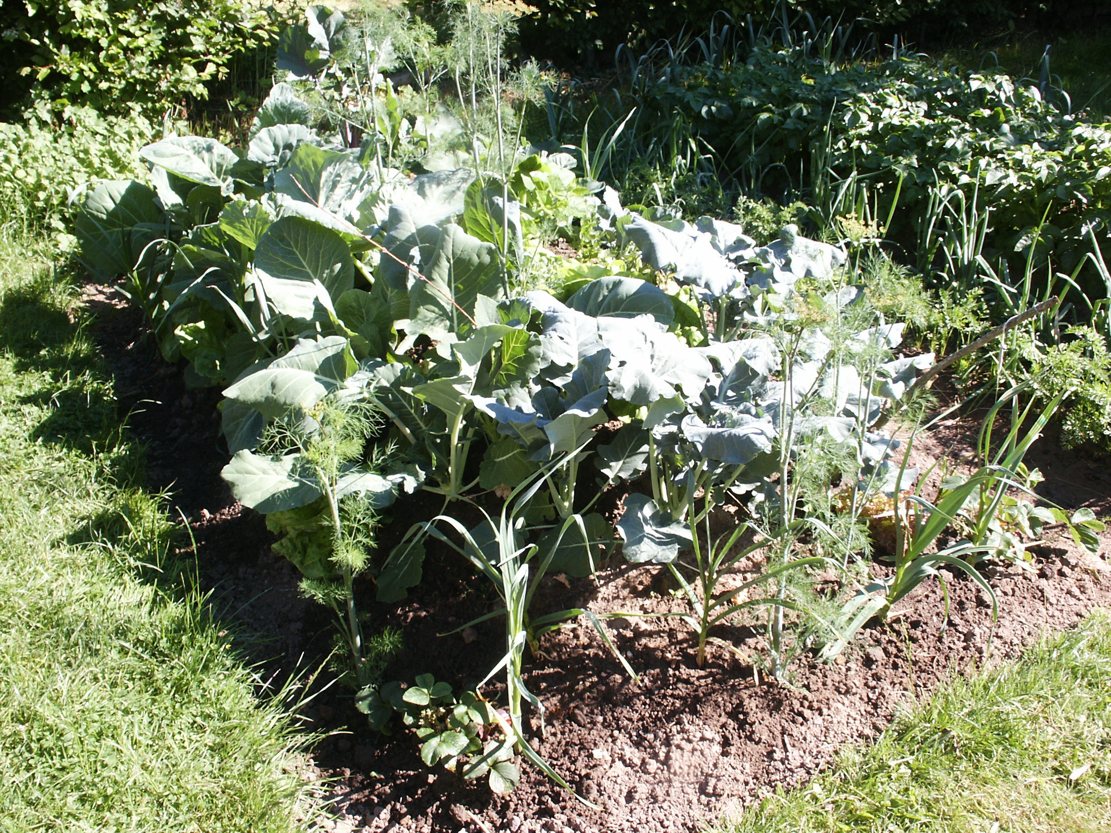 Hügelkultur with German turnip, salad, dill and garlic